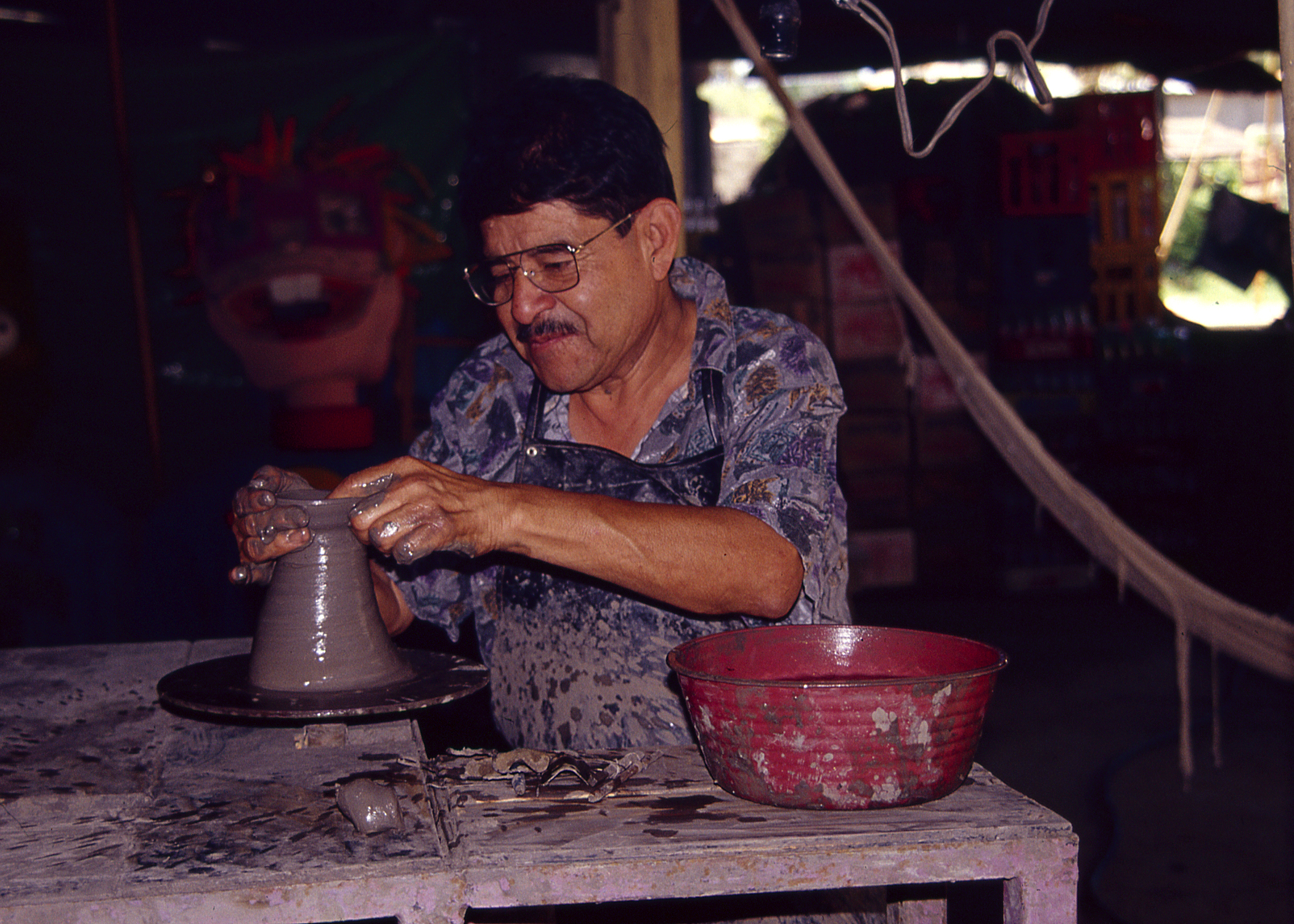 Avelino Blanco Nuñez of Santa Maria Atzompa, Oaxaca, Mexico